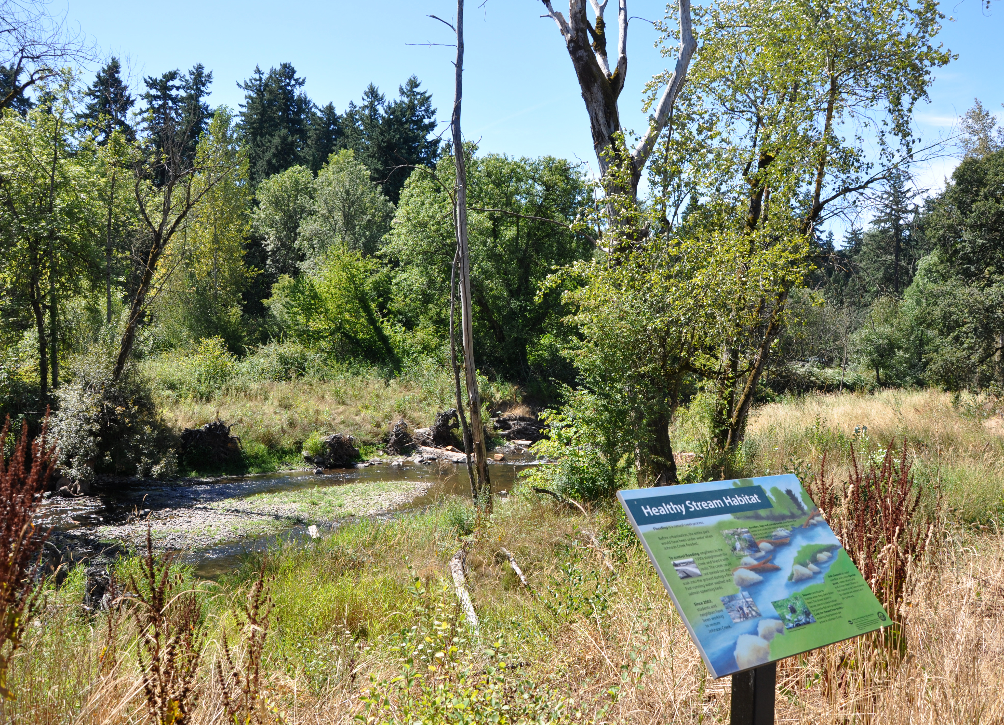 Upstream end of Tideman Johnson Natural Area along Johnson Creek in southeast Portland, Oregon, in the United States